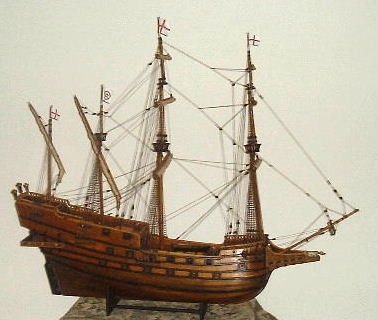 Photograph of my English Galleon Model; Own work, all rights released